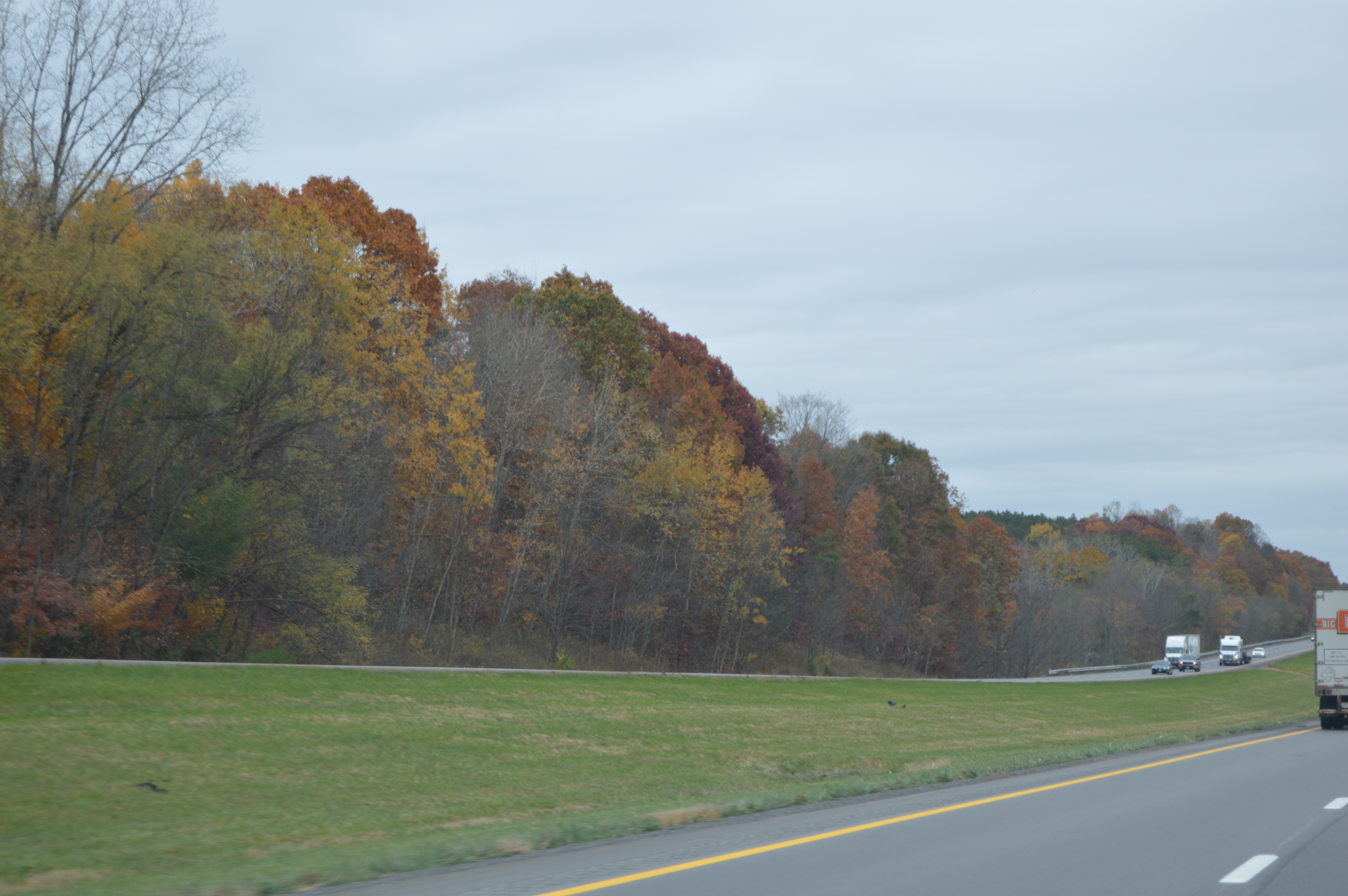 Woods on the northern side of Interstate 70 just east of the Ridge Road overpass in Hopewell Township, Muskingum County, Ohio, United States.